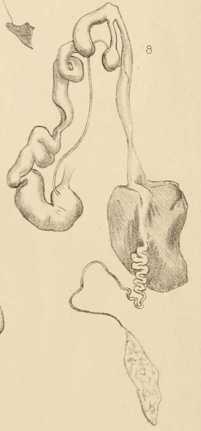 Limax canapicianus Pollonera, 1885, Limacidae, Pulmonata, Gastropoda, Forno Canavese near Rivara (Province of Turin, Piedmont, Italy), genital tract, extracted from Pollonera (1888: pl.3, fig.8)